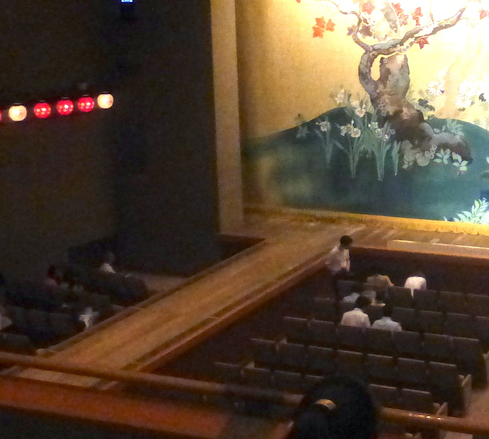 国立劇場の花道 (Kabuki traverse stage [hanamichi] at the National Theatre of Japan)